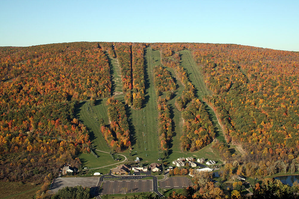 Bristol Mountain Ski Resort in the fall with no snow.